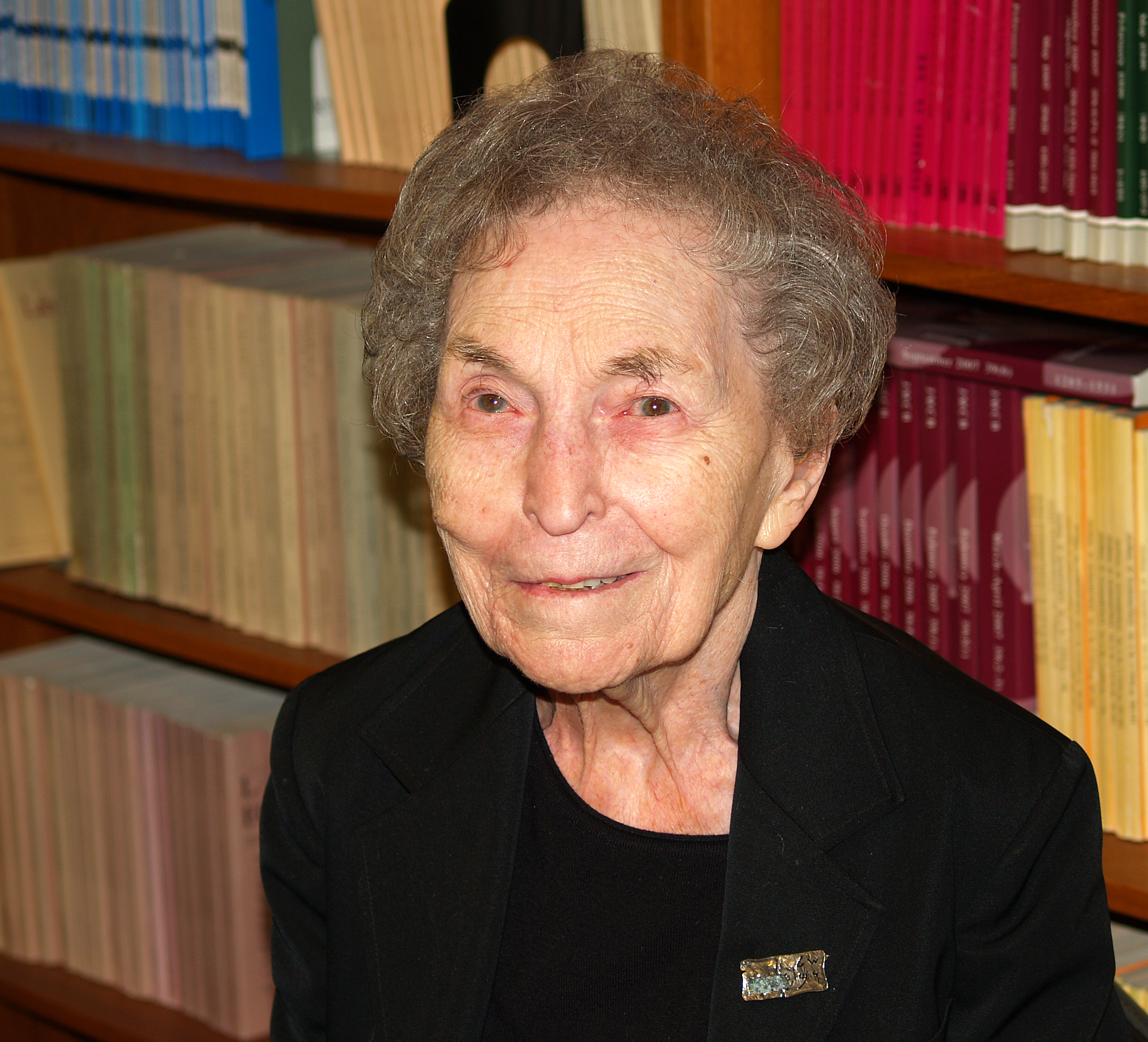 Anna Schwartz by David Shankbone